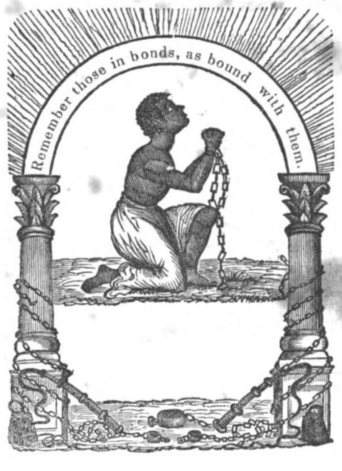 A page from the beginning of The Monthly Offering book publication, accesses in the Small Special Collections Library.